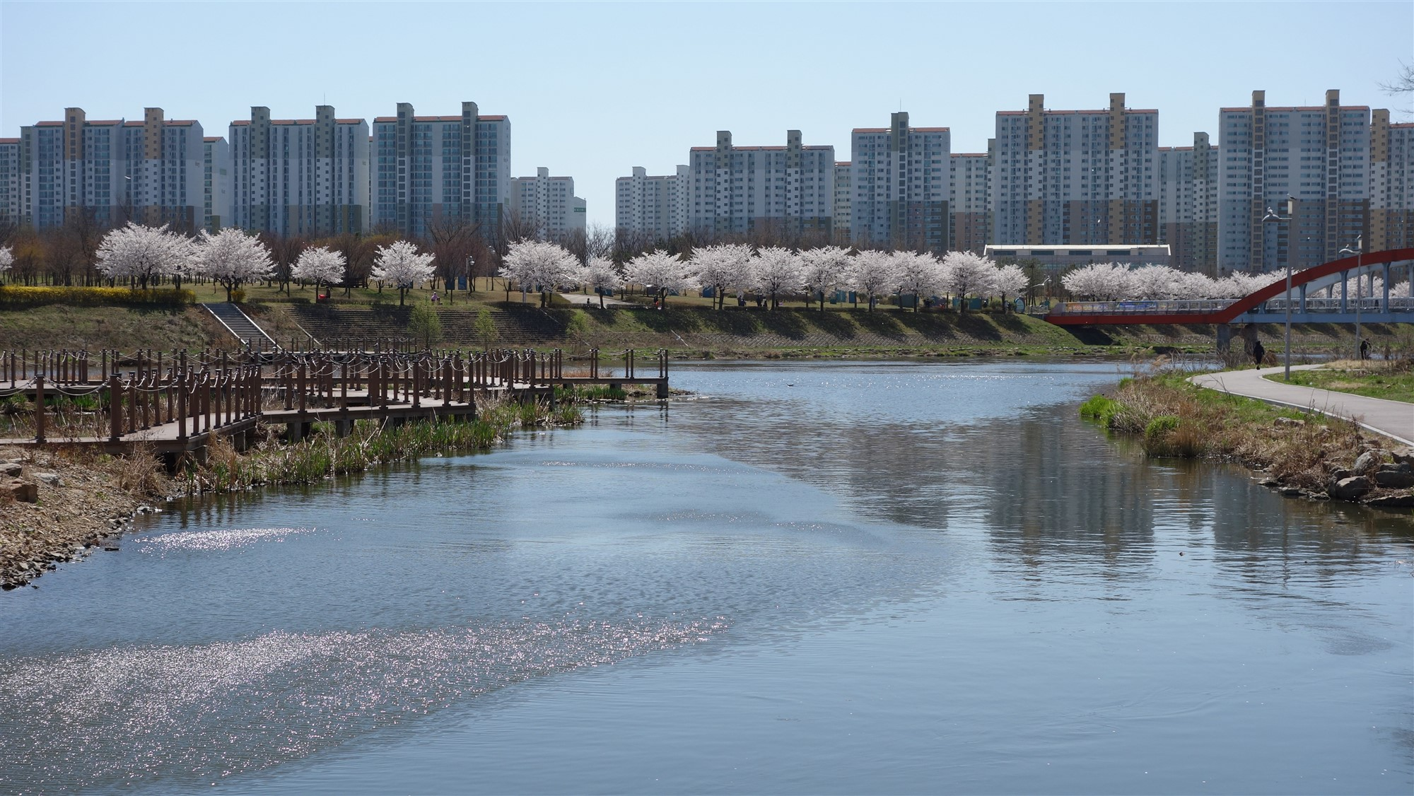 A view of the Ansan canal in the east side of the city, South Korea